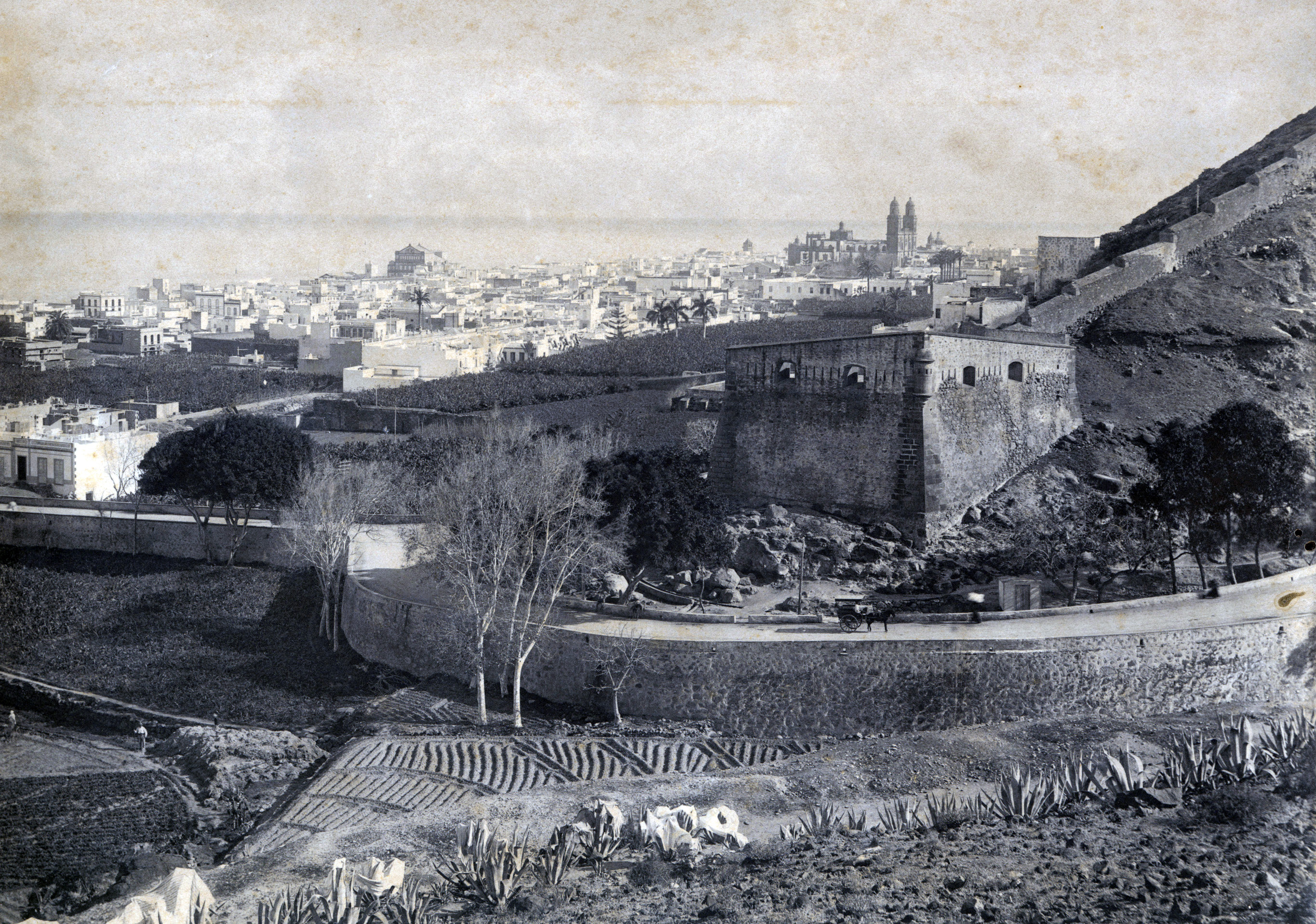 Walls and barracks of Alonso Alvarado (Castillo de Mata) former defenses of Las Palmas de Gran Canaria. Gran Canaria, Canary Islands (Spain).